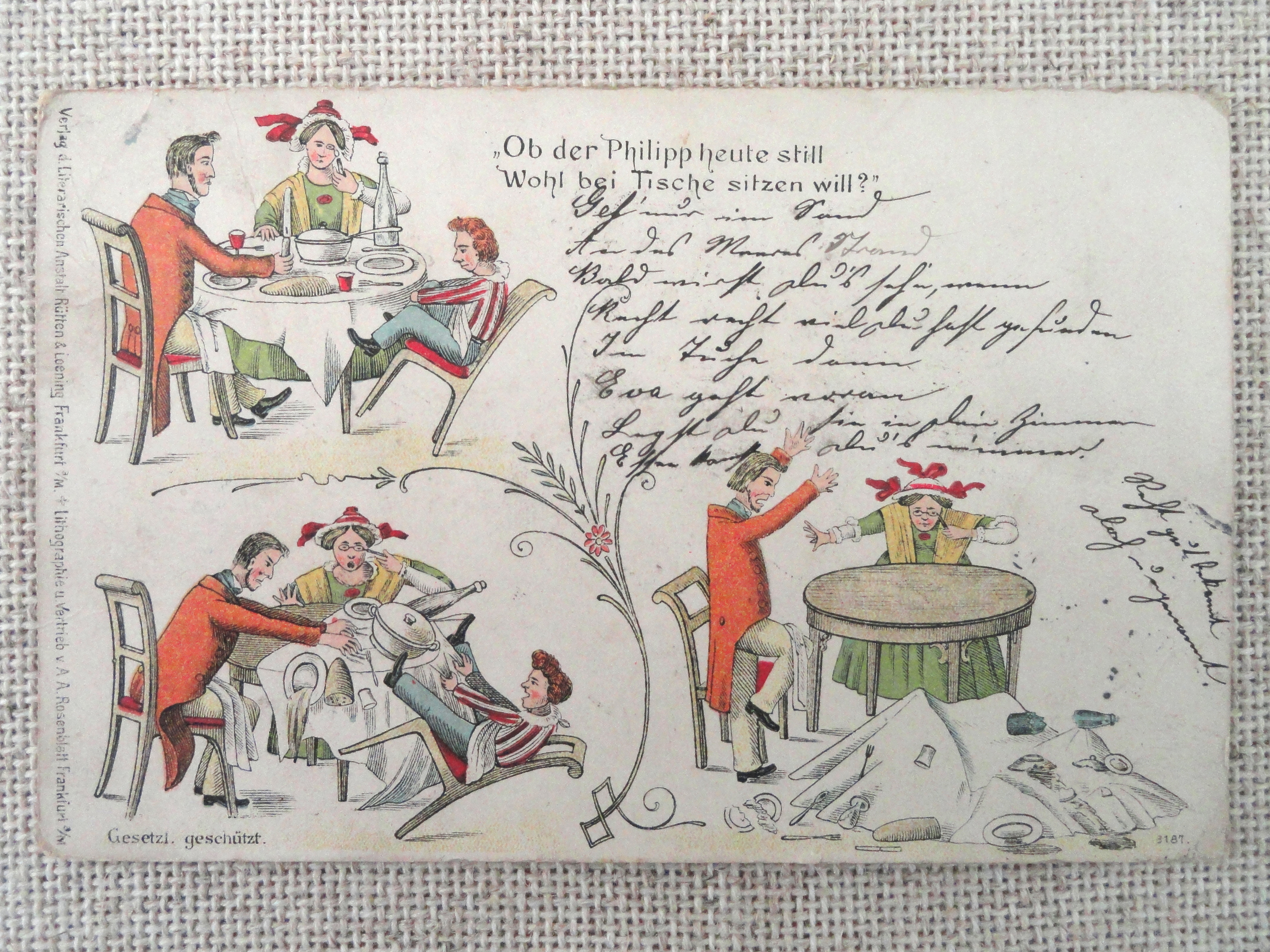 Miscellany in the Struwwelpeter Museum, Schubertstr. 20 60325 Frankfurt am Main, Germany. (I asked). Artwork is old enough so that it is in the public domain. I took this photograph and release it into the public domain.